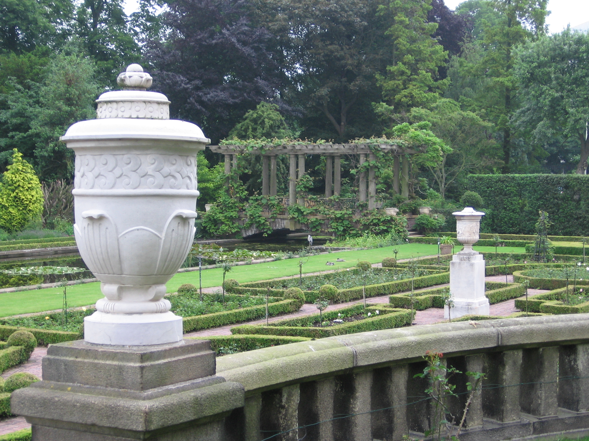 Vases in the garden of the Peace Palace, The Hague, The Netherlands.